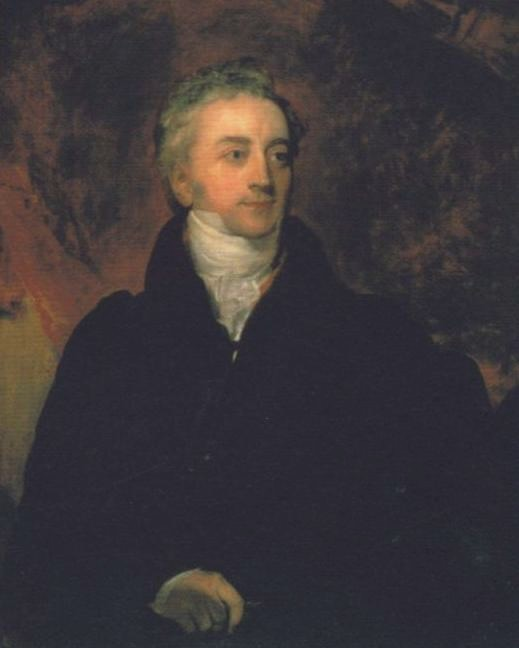 Portrait of Dr. Thomas Young (1773 – 1829). Robinson's biography of Young says (page 233) that the portrait was painted after 1822. Young died in 1829.